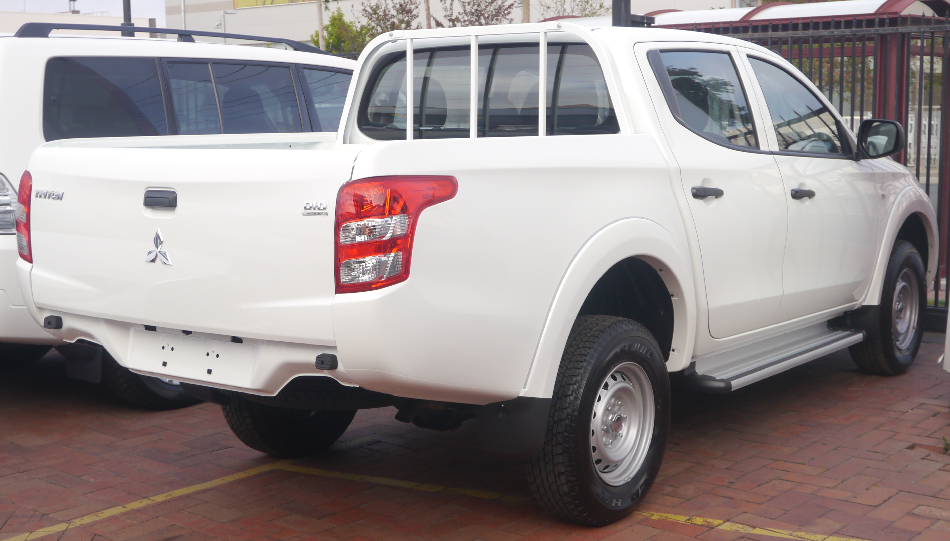 These are the only pictures I've been able to get of the new generation Triton Ute, shown in base model GLX here. Mitsubishi Australia will continue to sell the older generation along side the new model until stocks dry up.